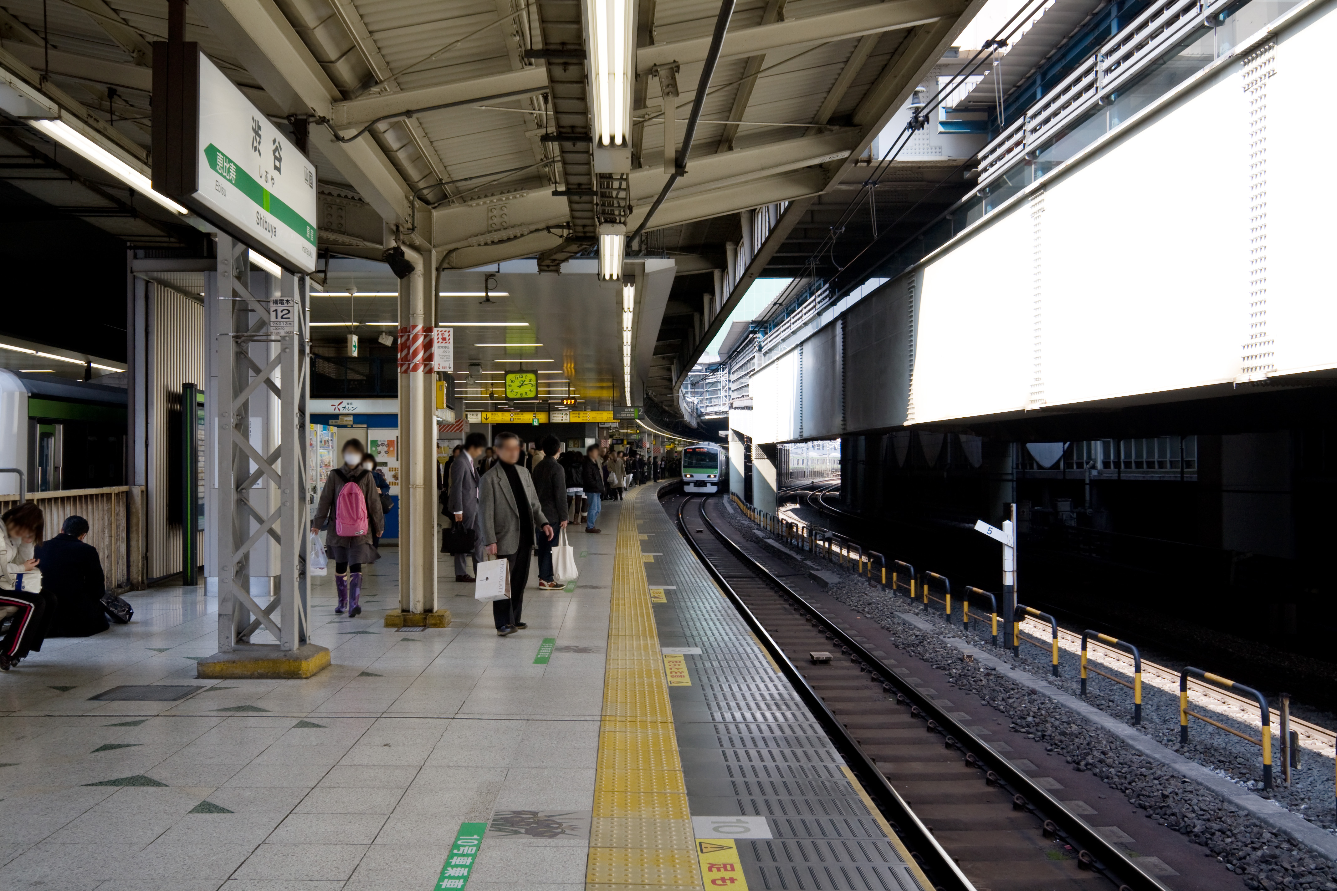 JR Shibuya Station Platform